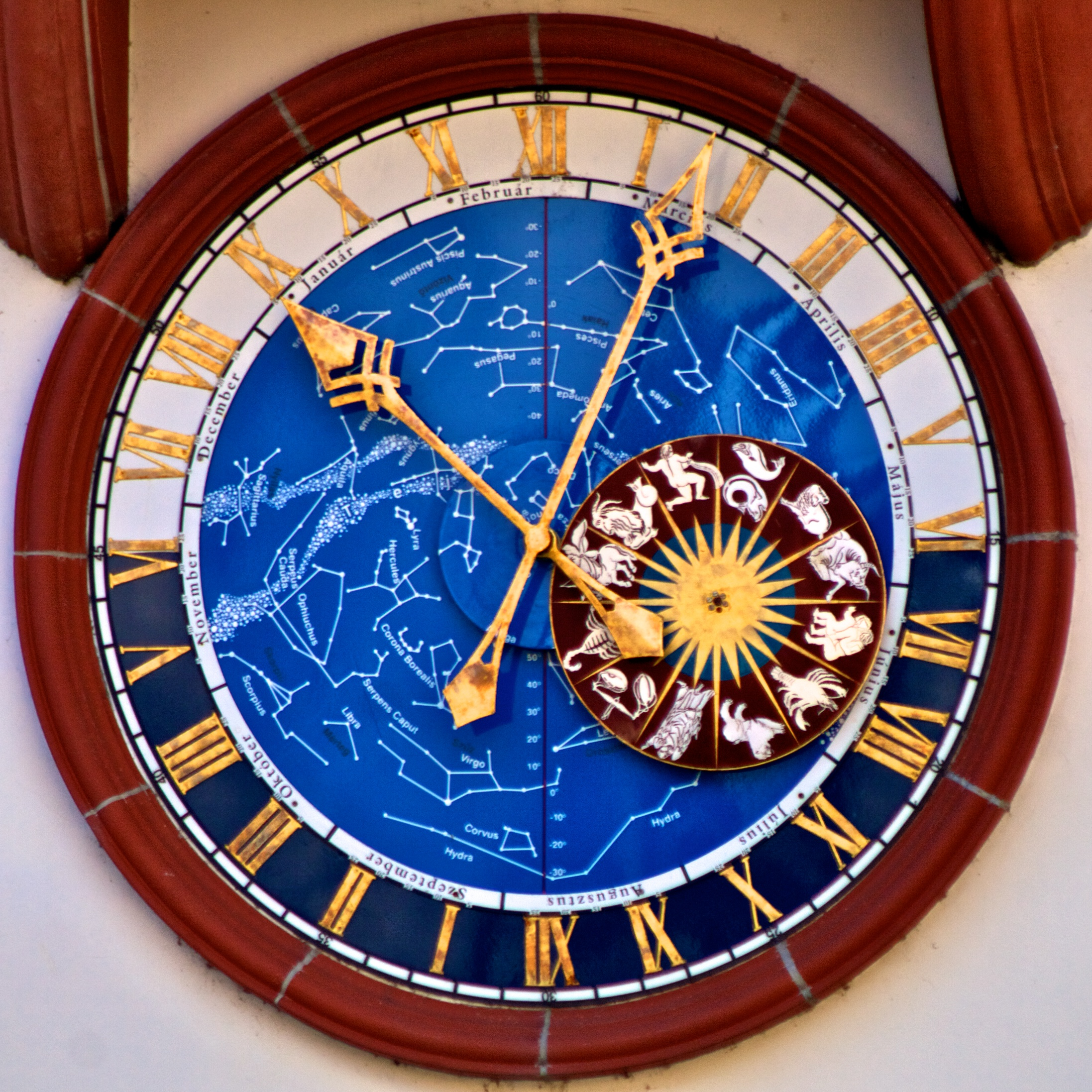 Historical Facade Clock by Jenő Kovács, Mária Ecsedi, Péter Korompai and Tibor Diós (2002) in the downtown of Székesfehérvár